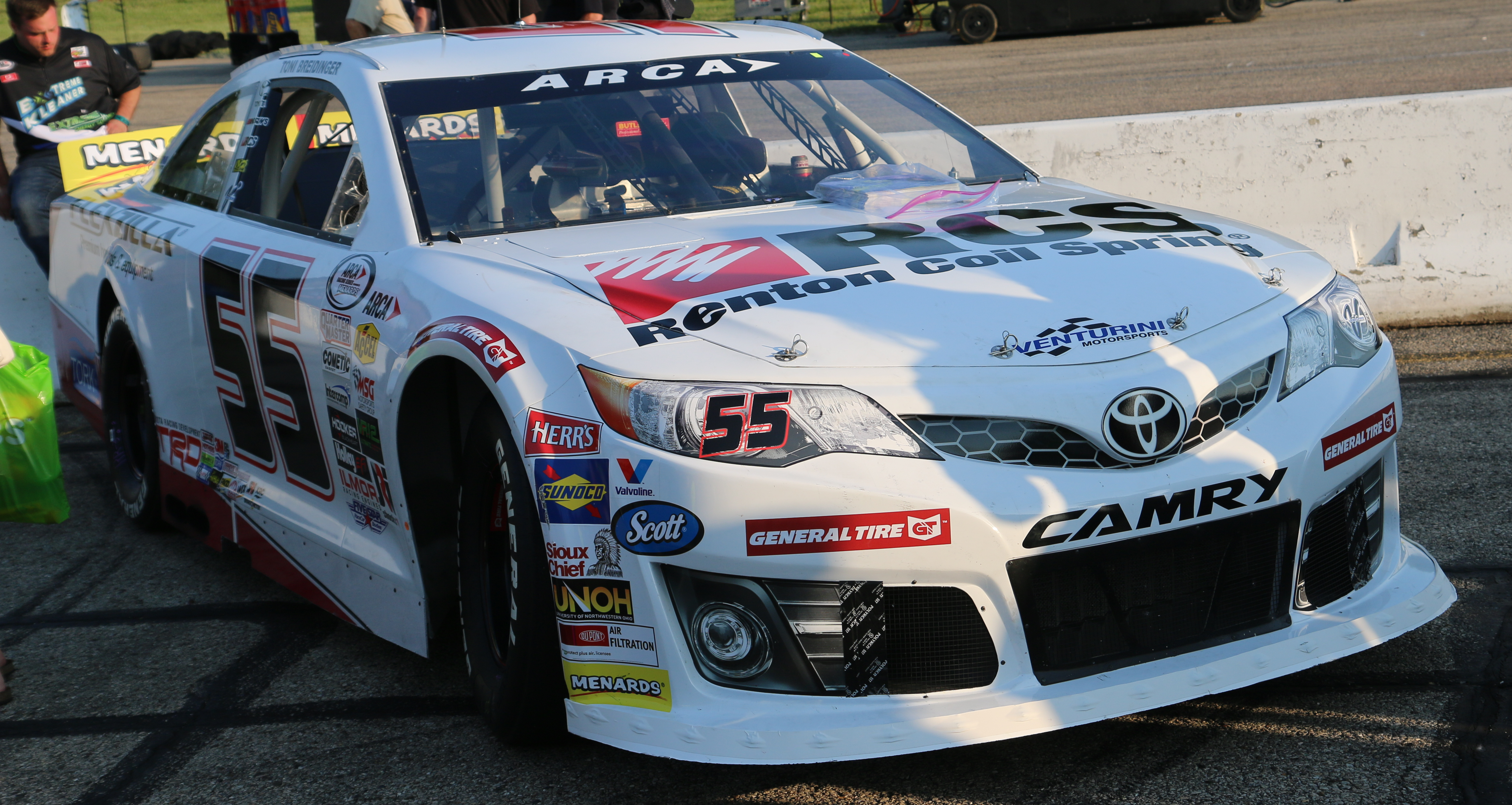 The #55 car of Toni Breidinger on display at the 2018 ARCA race at Madison International Speedway.